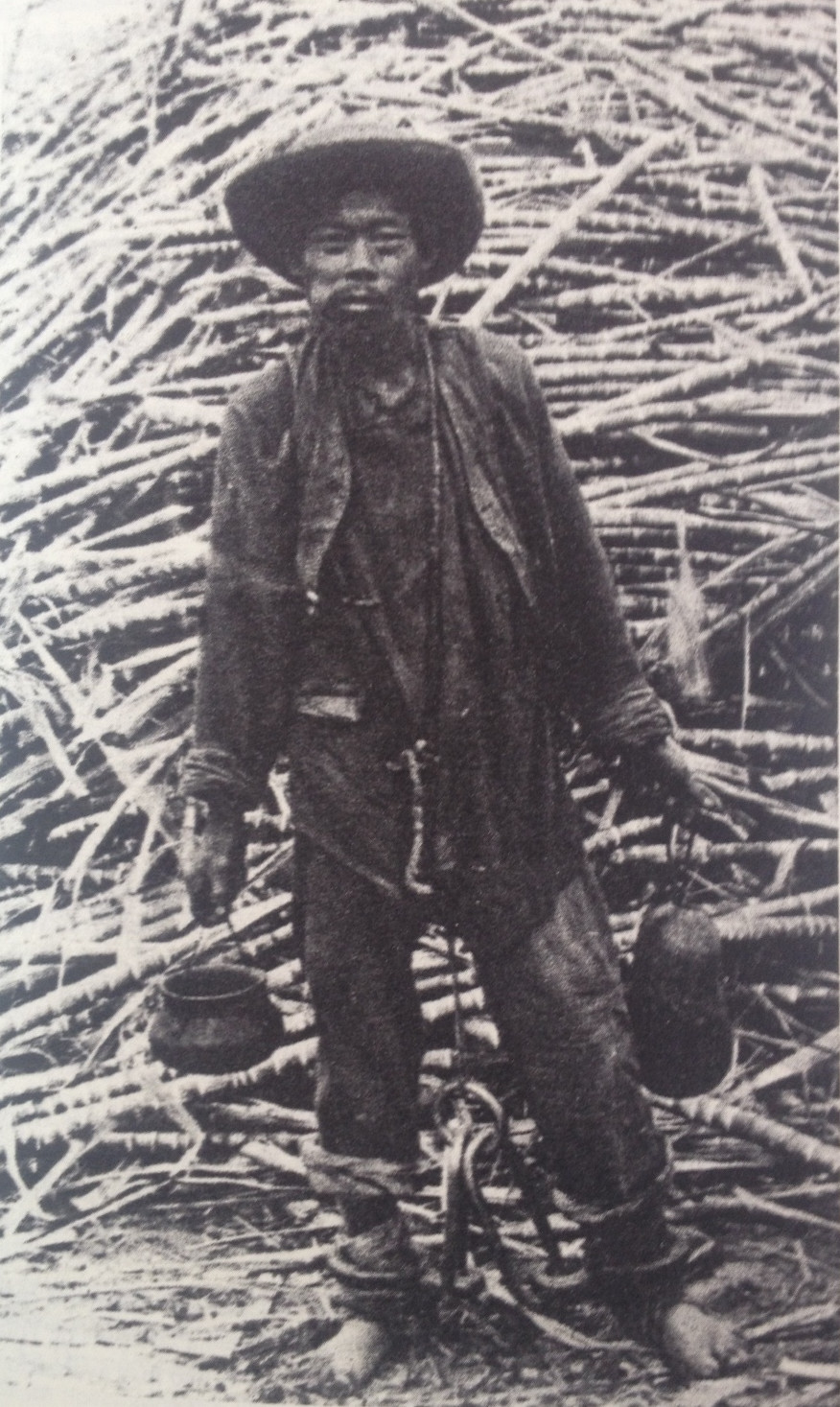 Enslaved Chinese were liberated by the invading Chilean army by 1881, many coolies joined the Chilean army to take revenge of their enslavement.